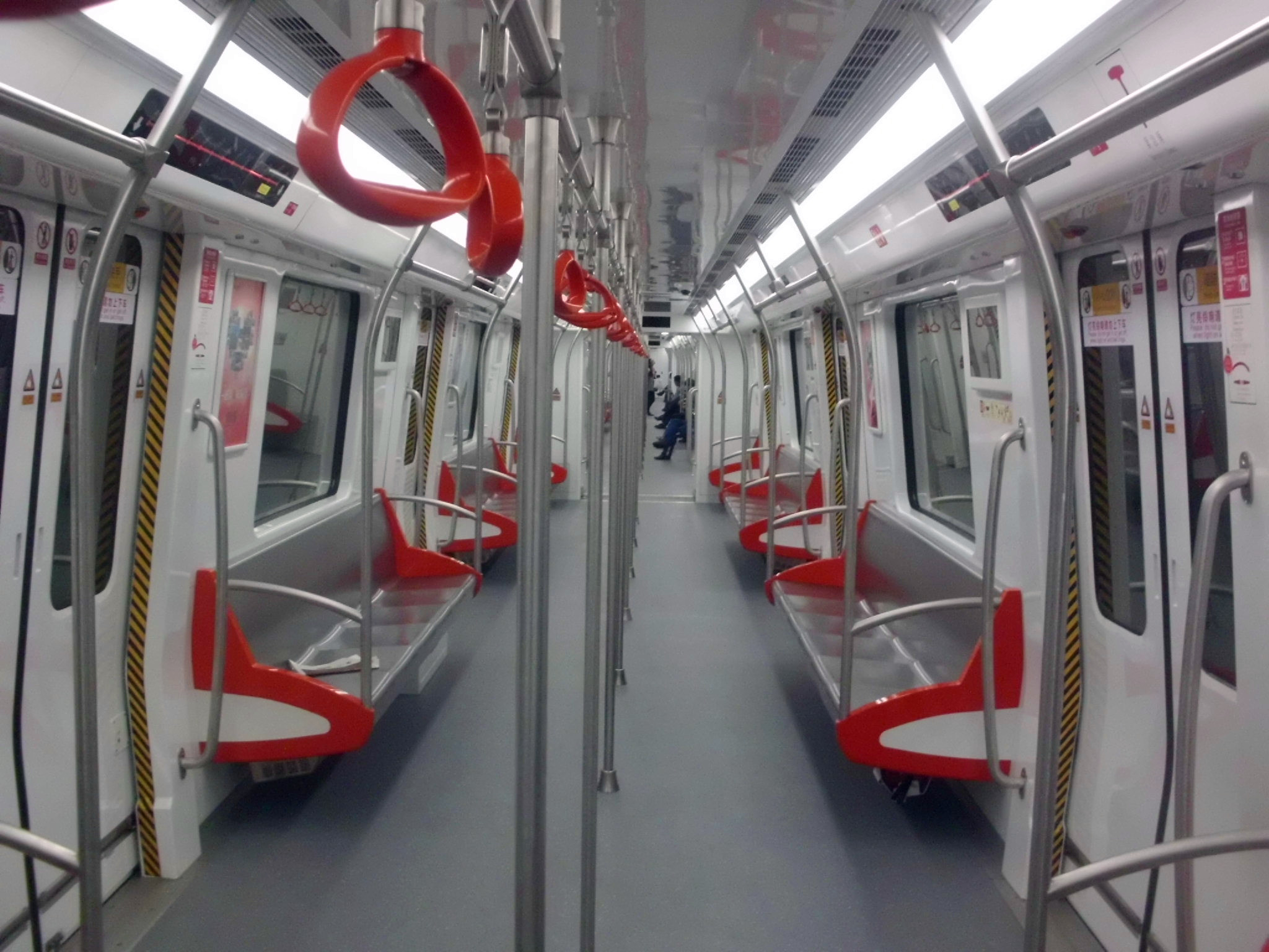 Line 2, Hangzhou Metro